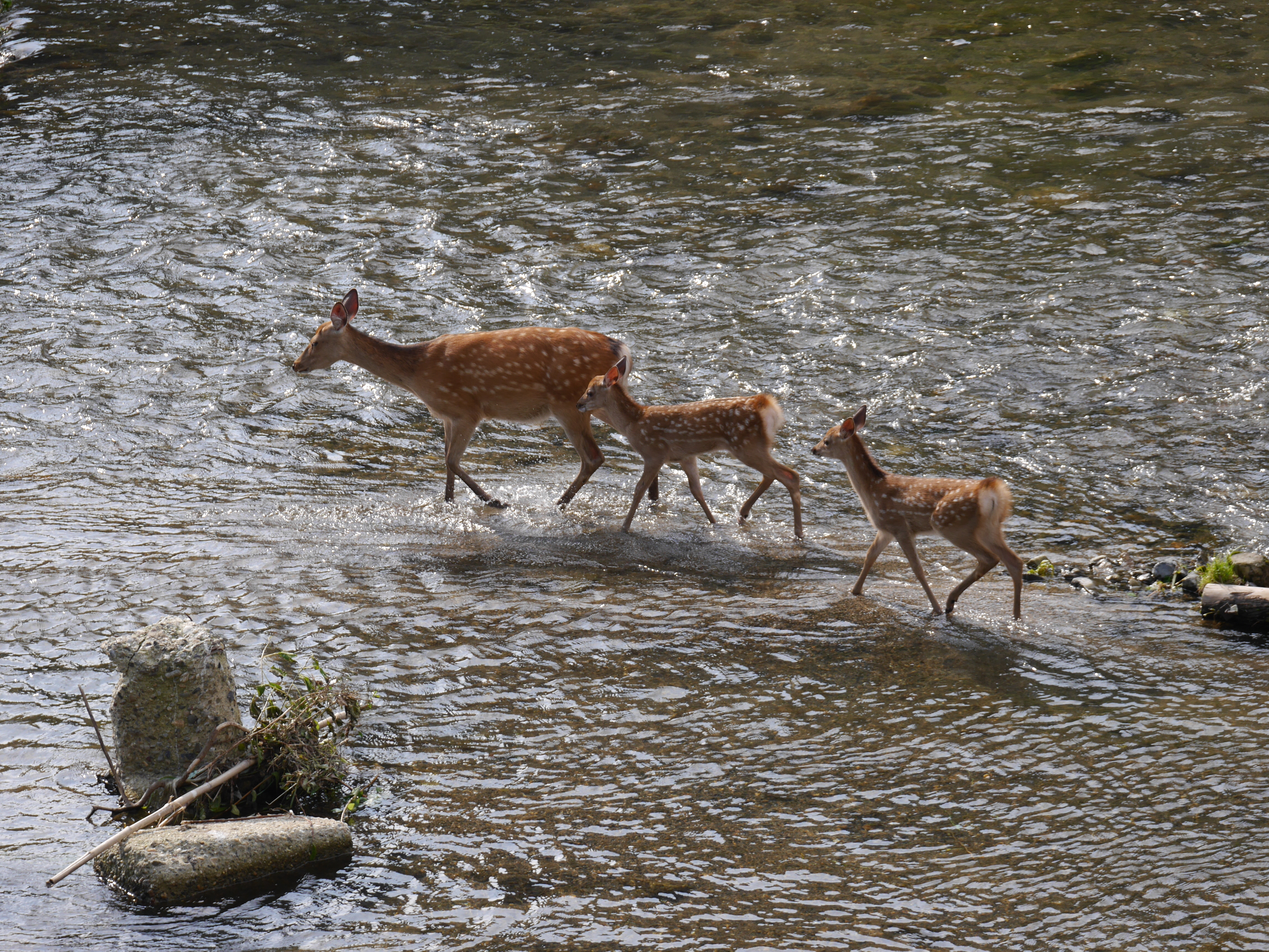 Sika deer family passing Takano river